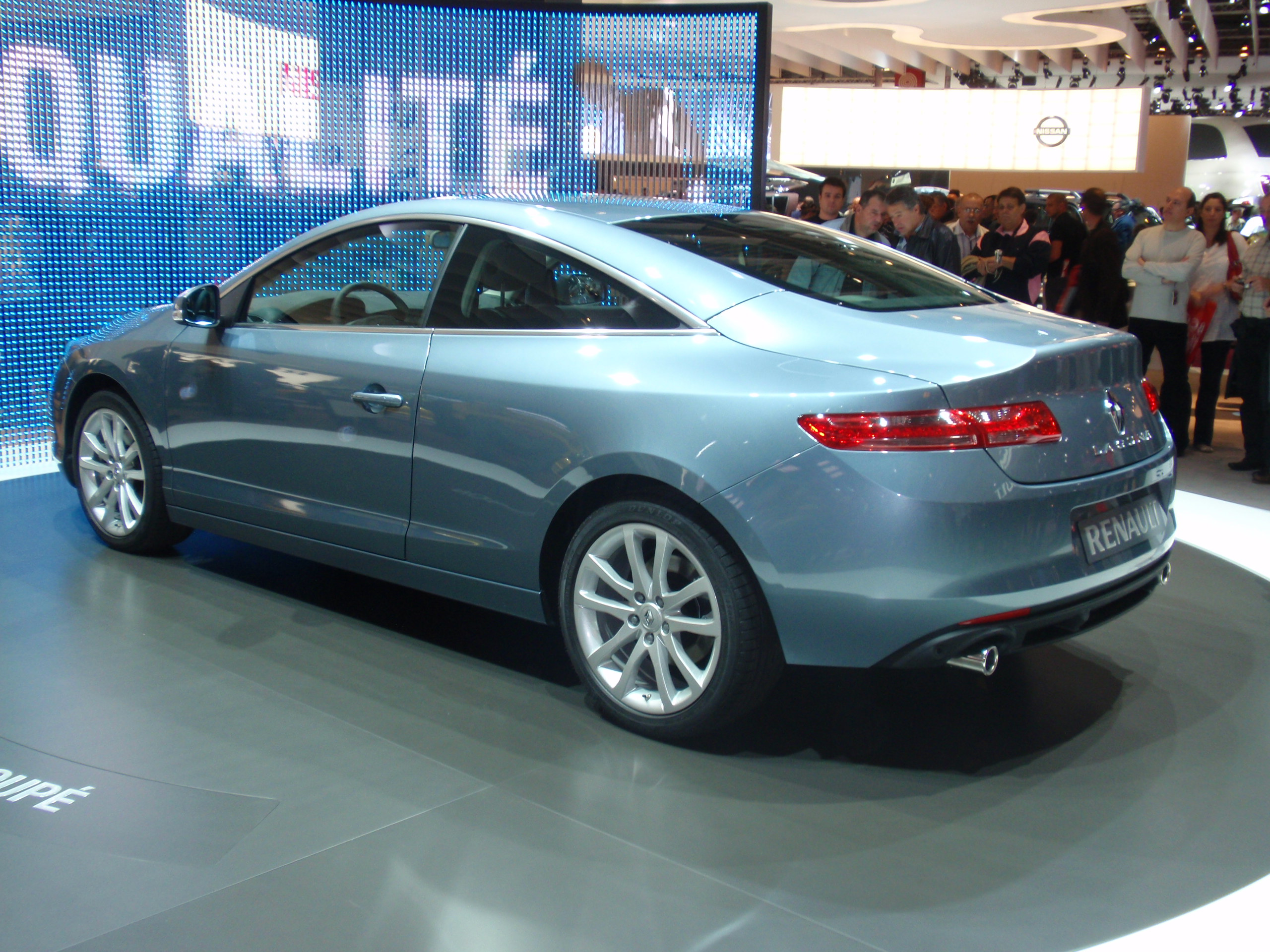 Renault Laguna Coupé at the 2008 Paris Motor Show